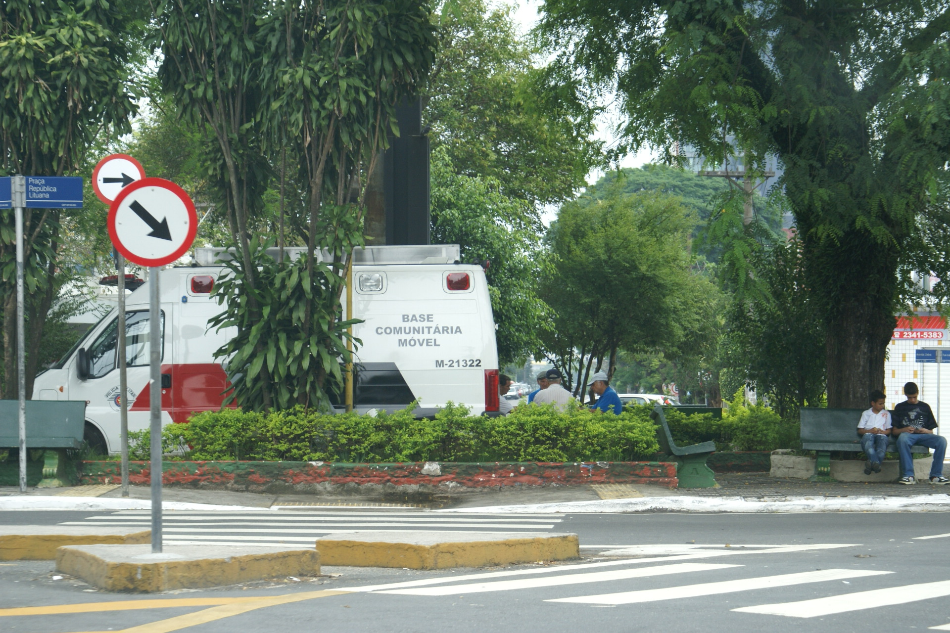 República Lituana Square, São Paulo City, Brazil.